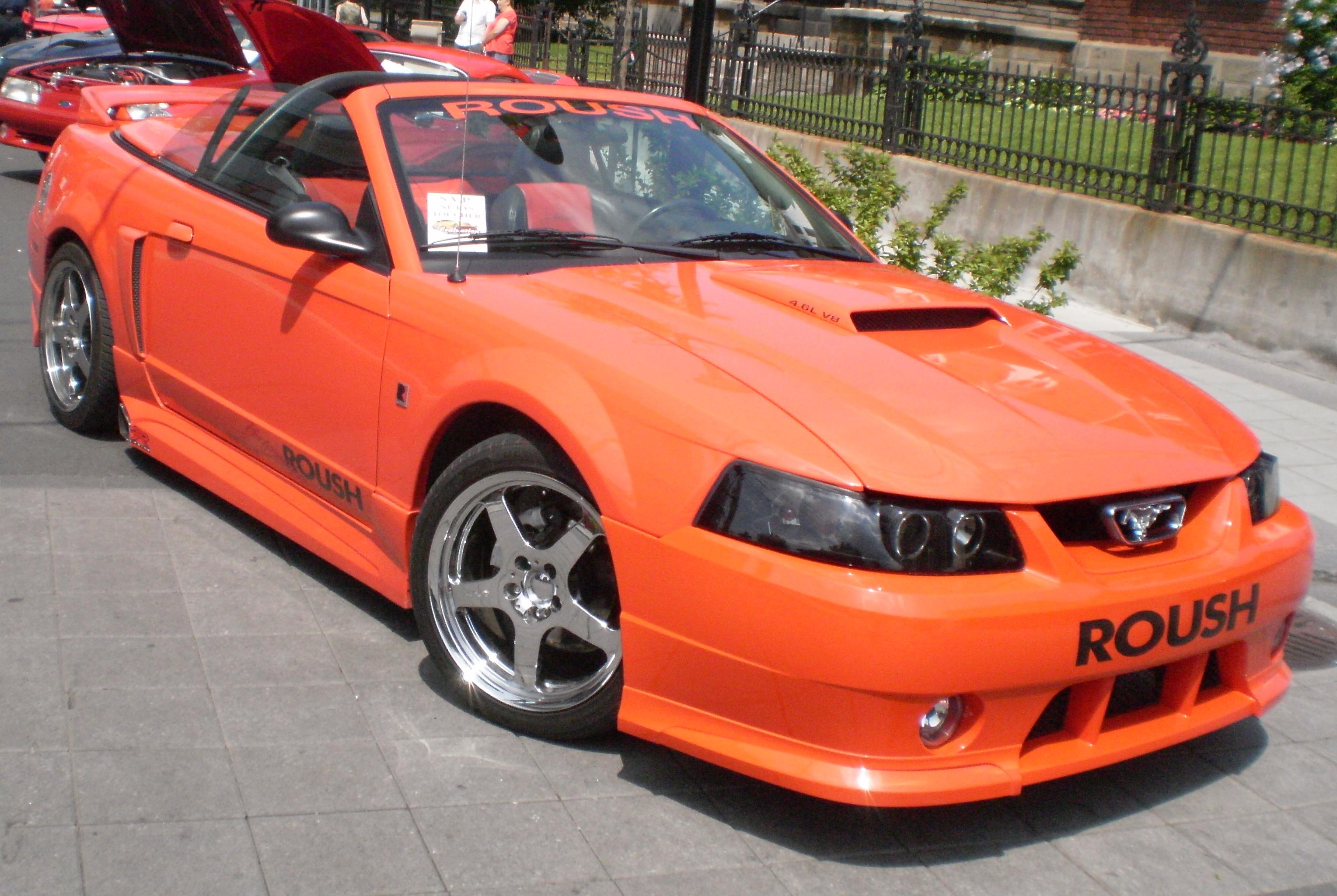 Ford Roush Mustang photographed in Ste. Anne De Bellevue, Quebec, Canada at Crusin' At The Boardwalk 2011.